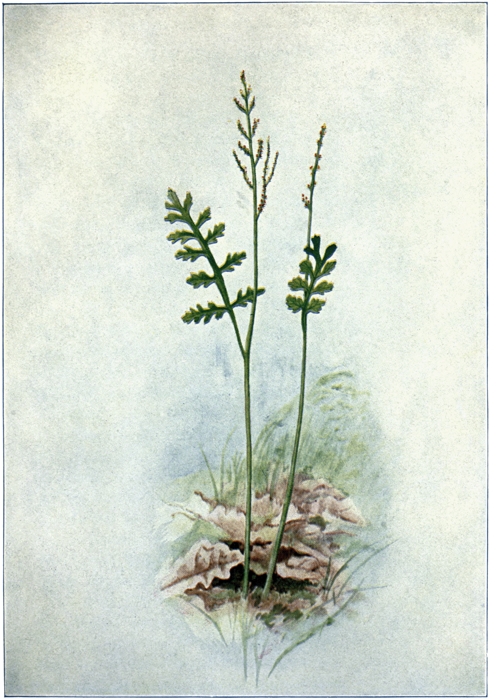 Illustration Botrychium maticariaefolium from Our Ferns in their Haunts: A Guide to all the Native Species by Willard Nelson Clute, 1901. Illustrated By William Walworth Stilson